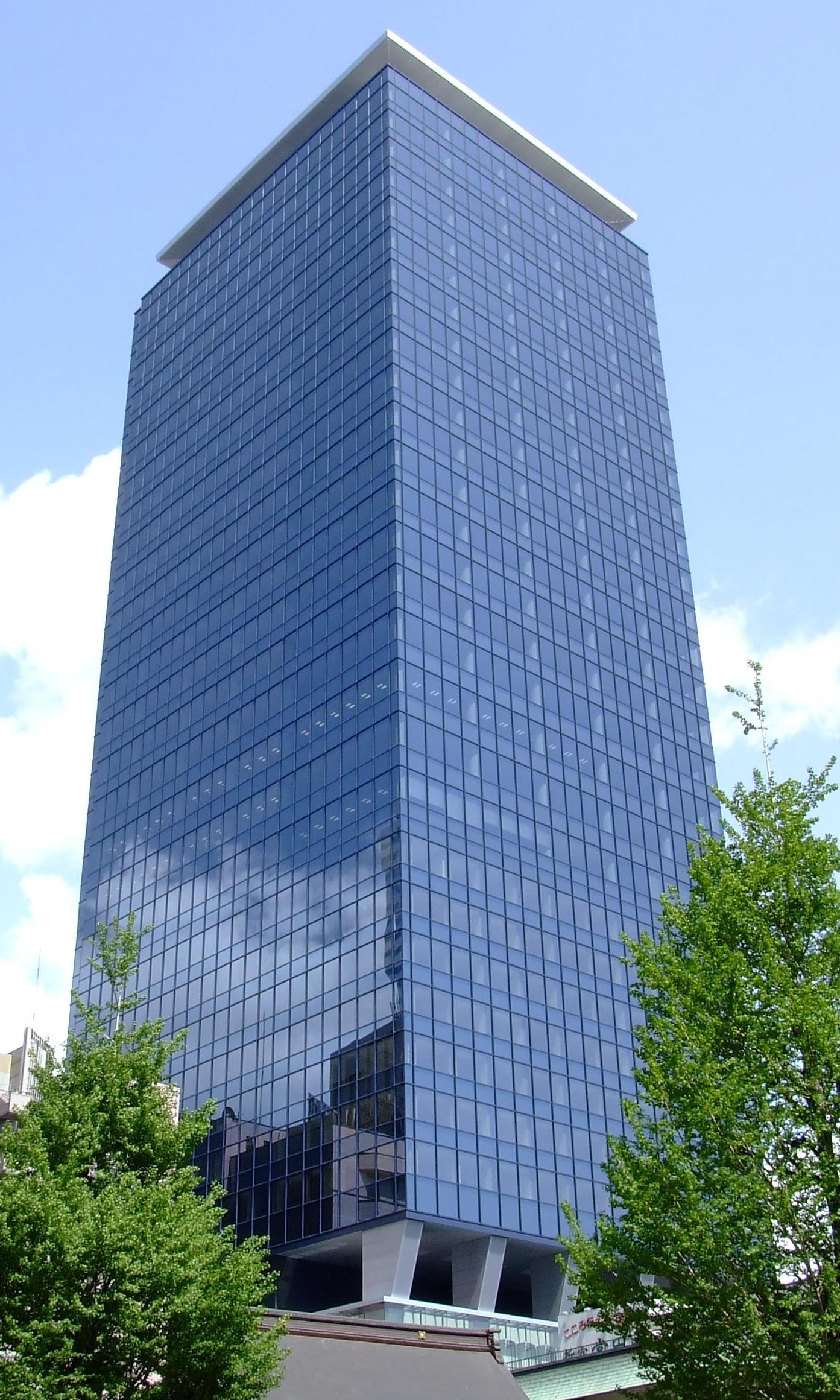 Sumitomo Fudosan Nishishinjuku Building